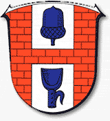 Coat of arms of the municipality Hassendorf, Lower Saxony, Germany